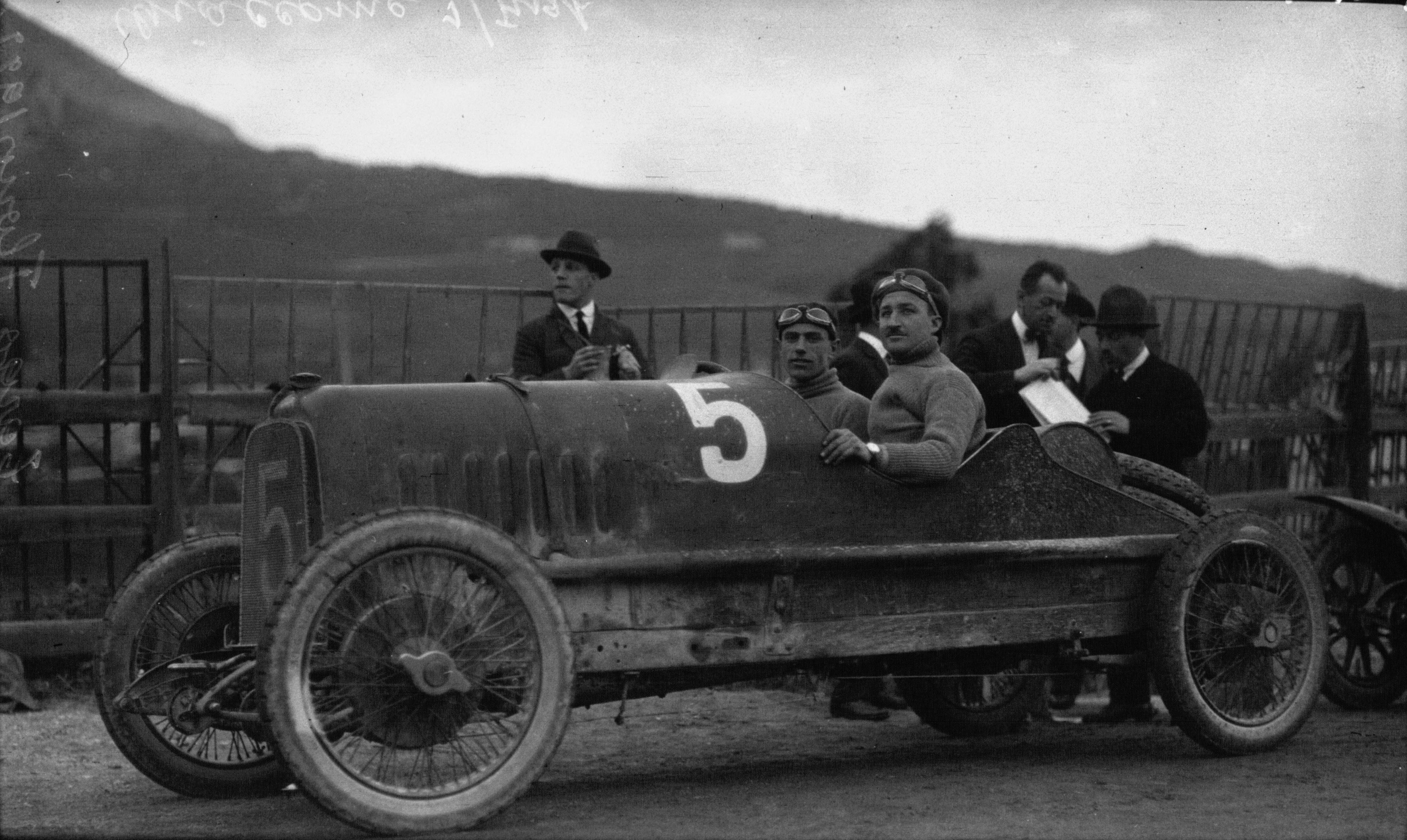 Enrico Giaccone in his Fiat at the 1922 Targa Florio.